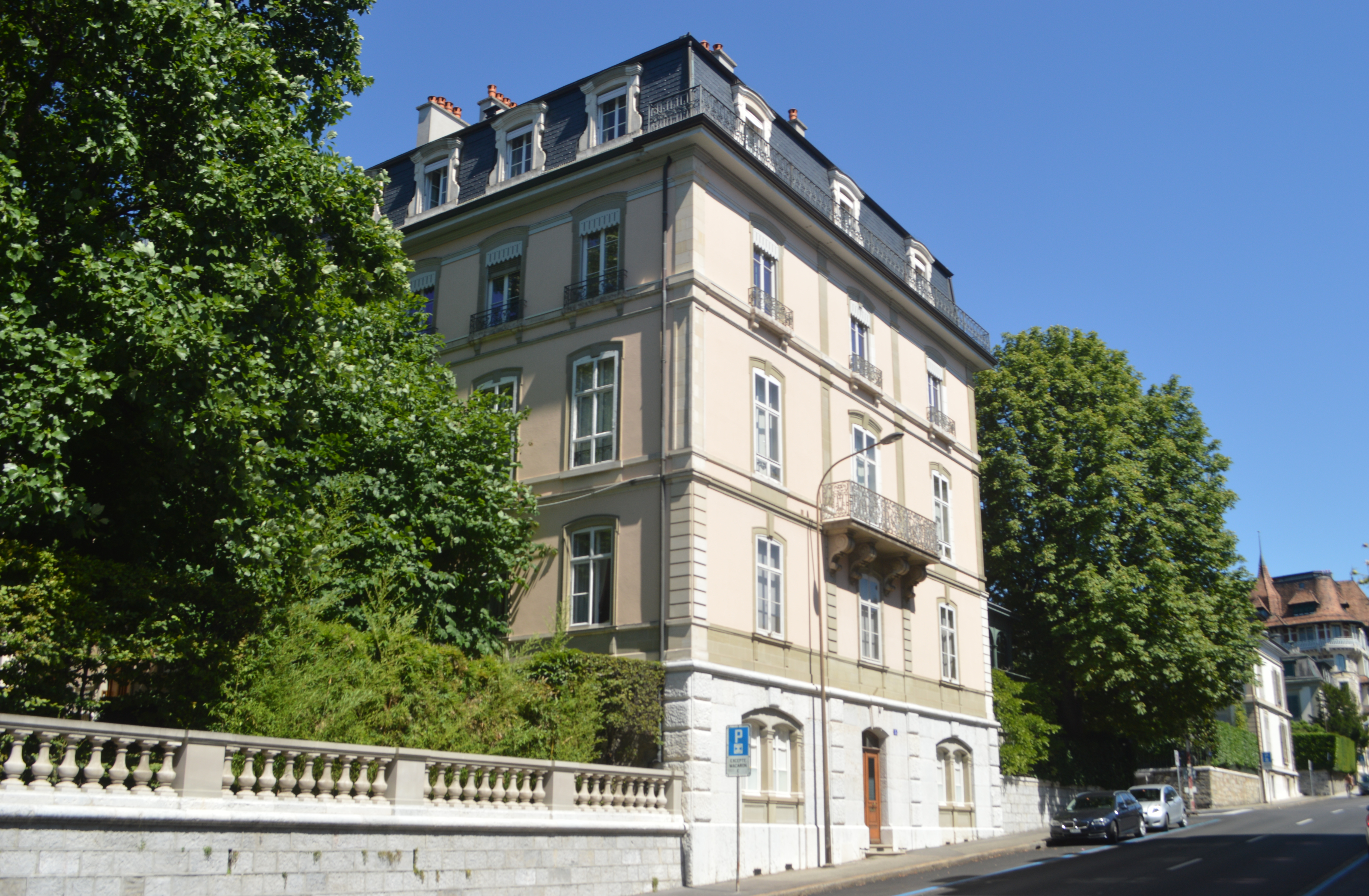 Rue de l'Athénée 3 in Geneva, Switzerland, which housed the headquarters of the International Committee of the Red Cross (ICRC) from 1874 to 1914.